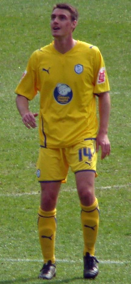 24/04/10 Cardiff V Sheffield Wednesday, Championship, Cardiff City Stadium, Cardiff, Wales